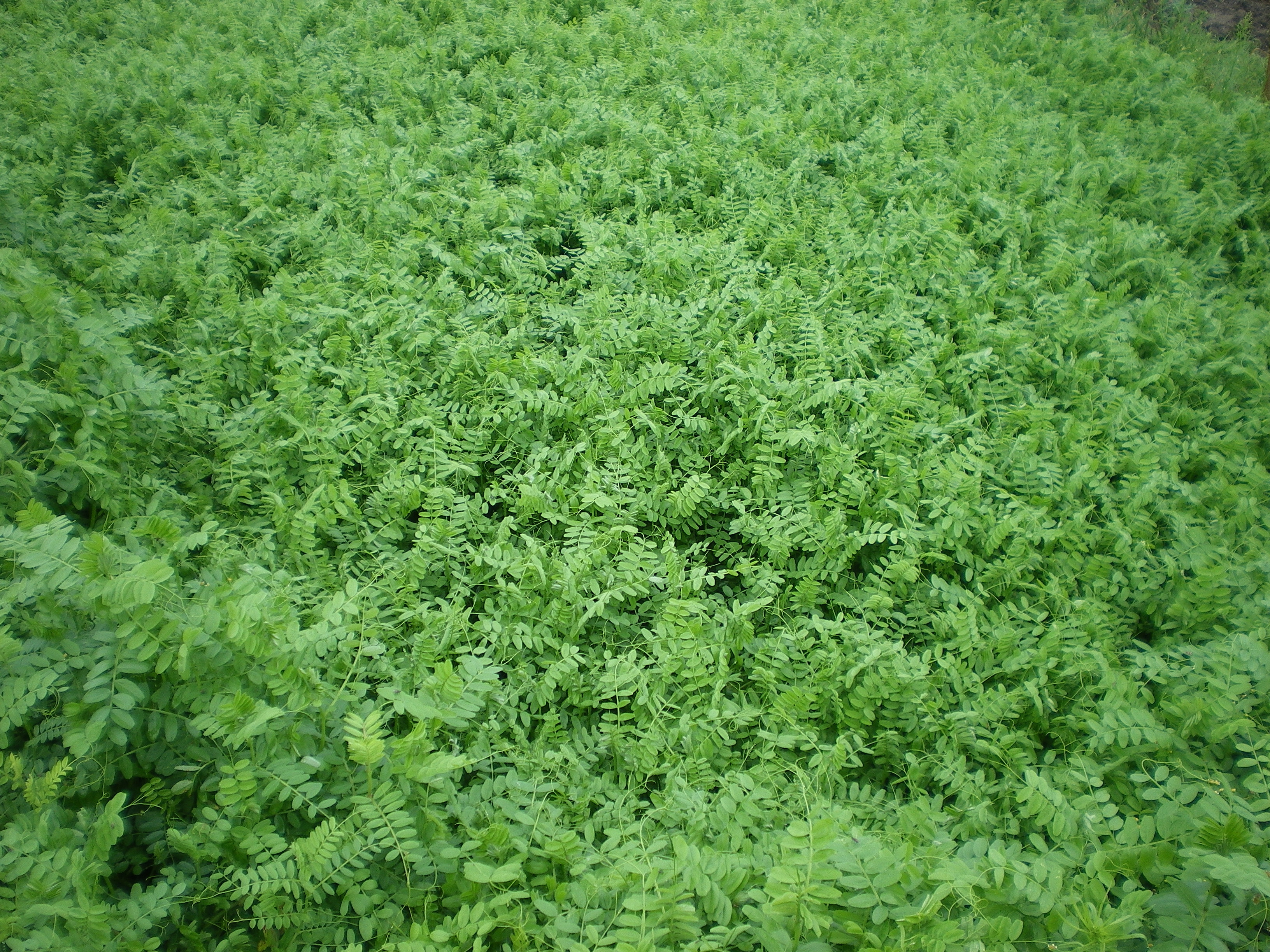 cover crops: vicia